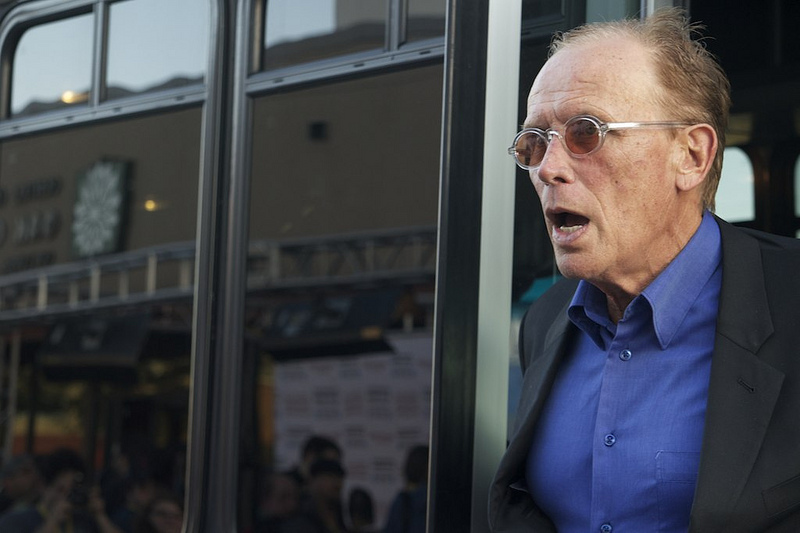 Peter Weller, who played Robocop arriving at the Texas Theater in Dallas, TX. in 2012.